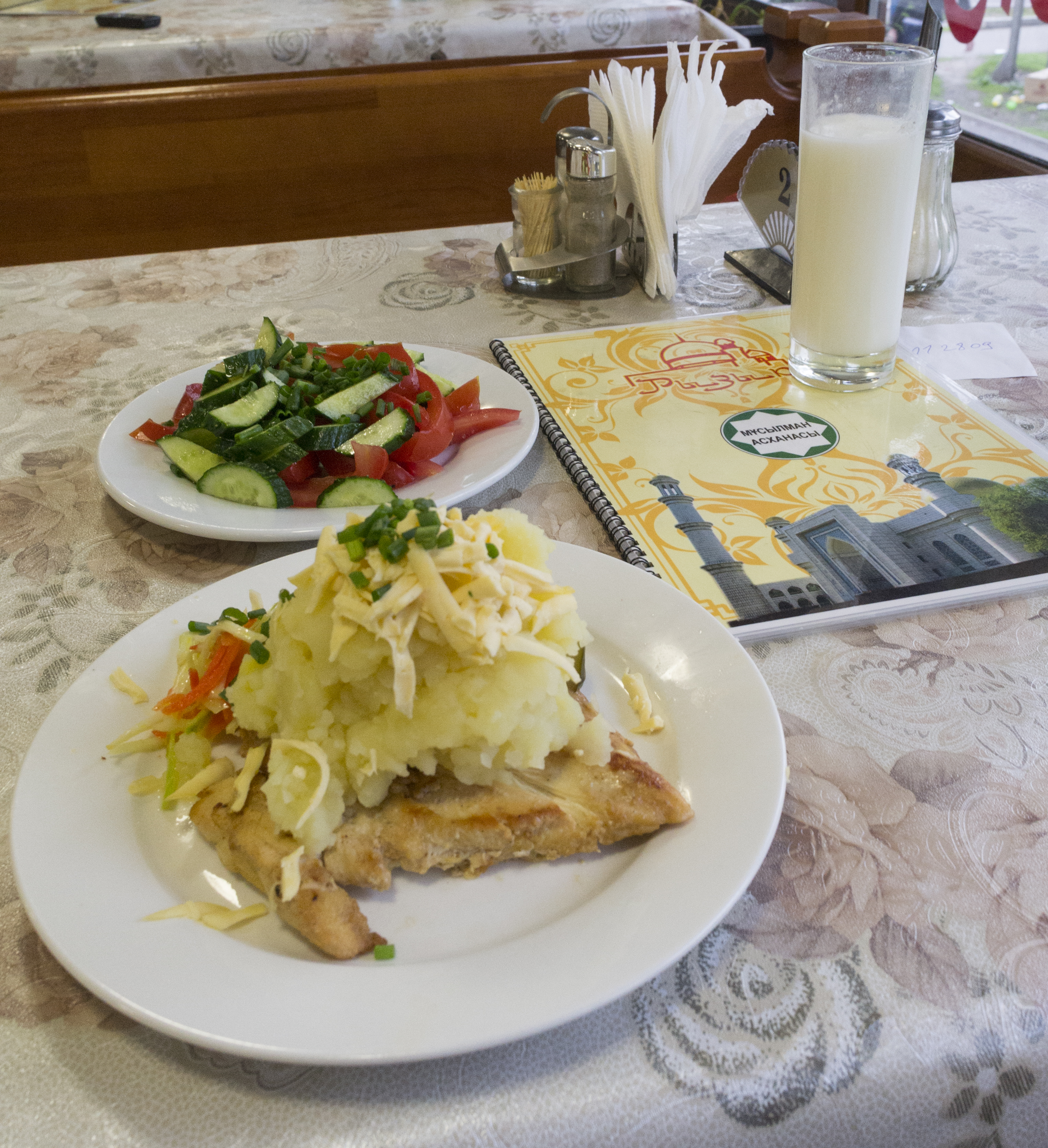 Halal restaurat in Almaty, Kazakhstan. Dish : yurta with salad and kumis.